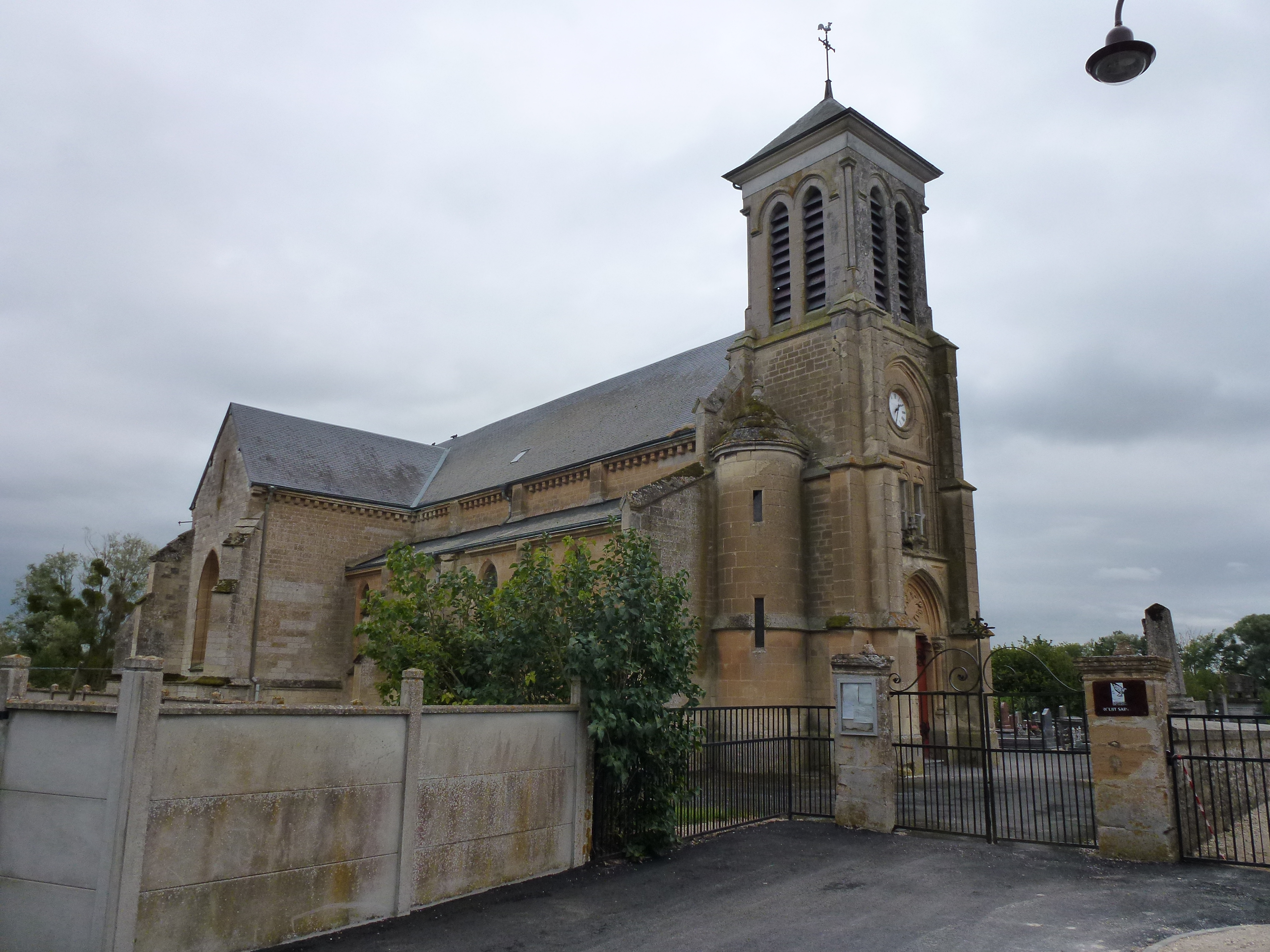 Coucy (Ardennes) église St-Rémy